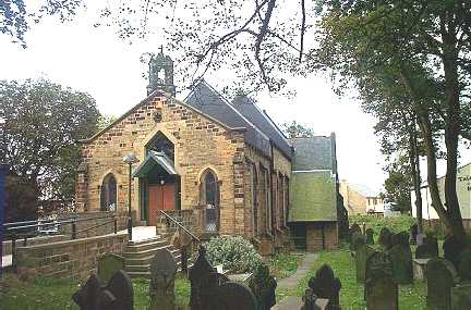 Lofthouse, Christ Church. This Church is almost central on the northern extreme of the O/S grid which it occupies, on the eastern side of the A61, Wakefield to Leeds Road